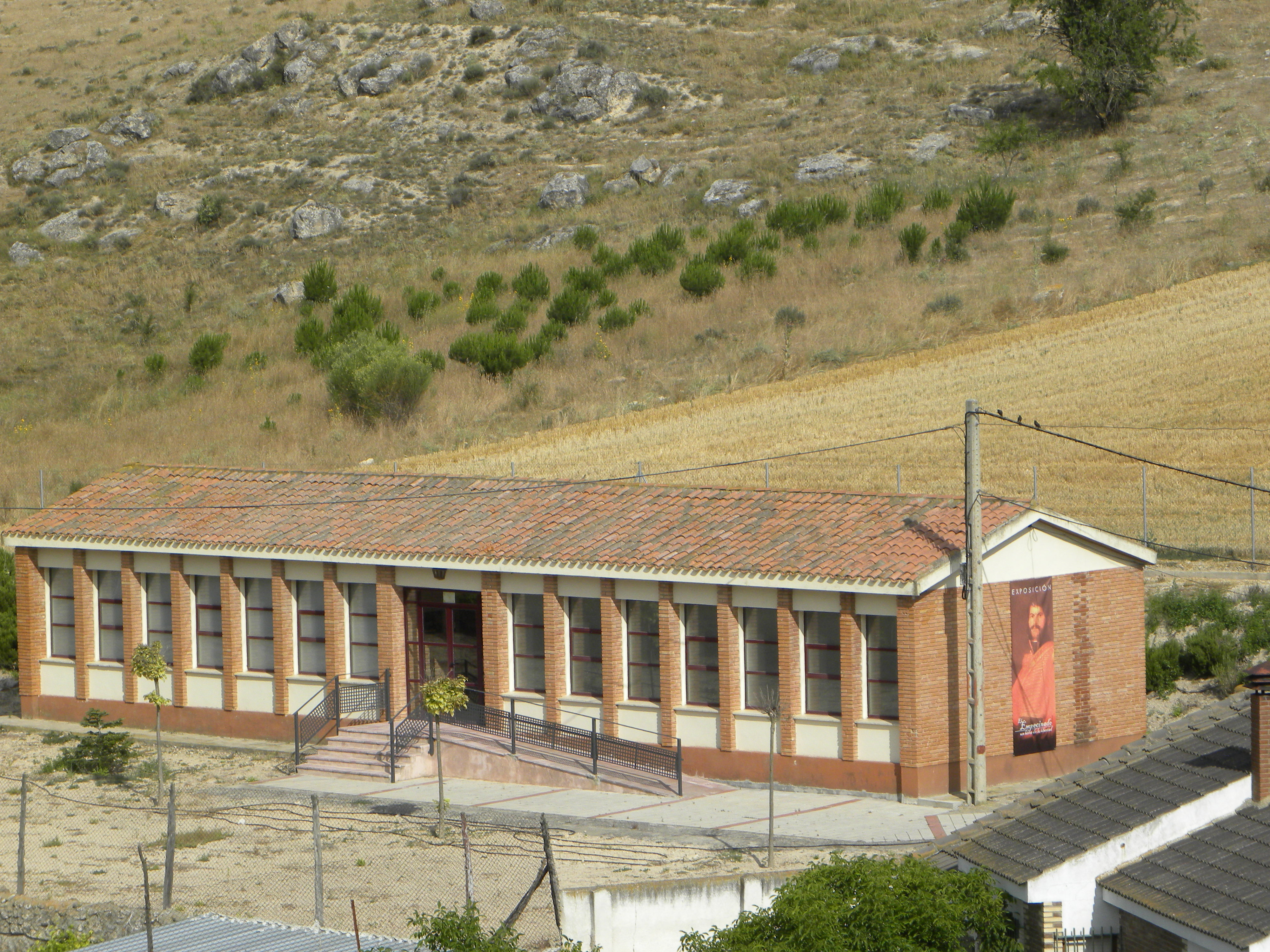 empecinado museum